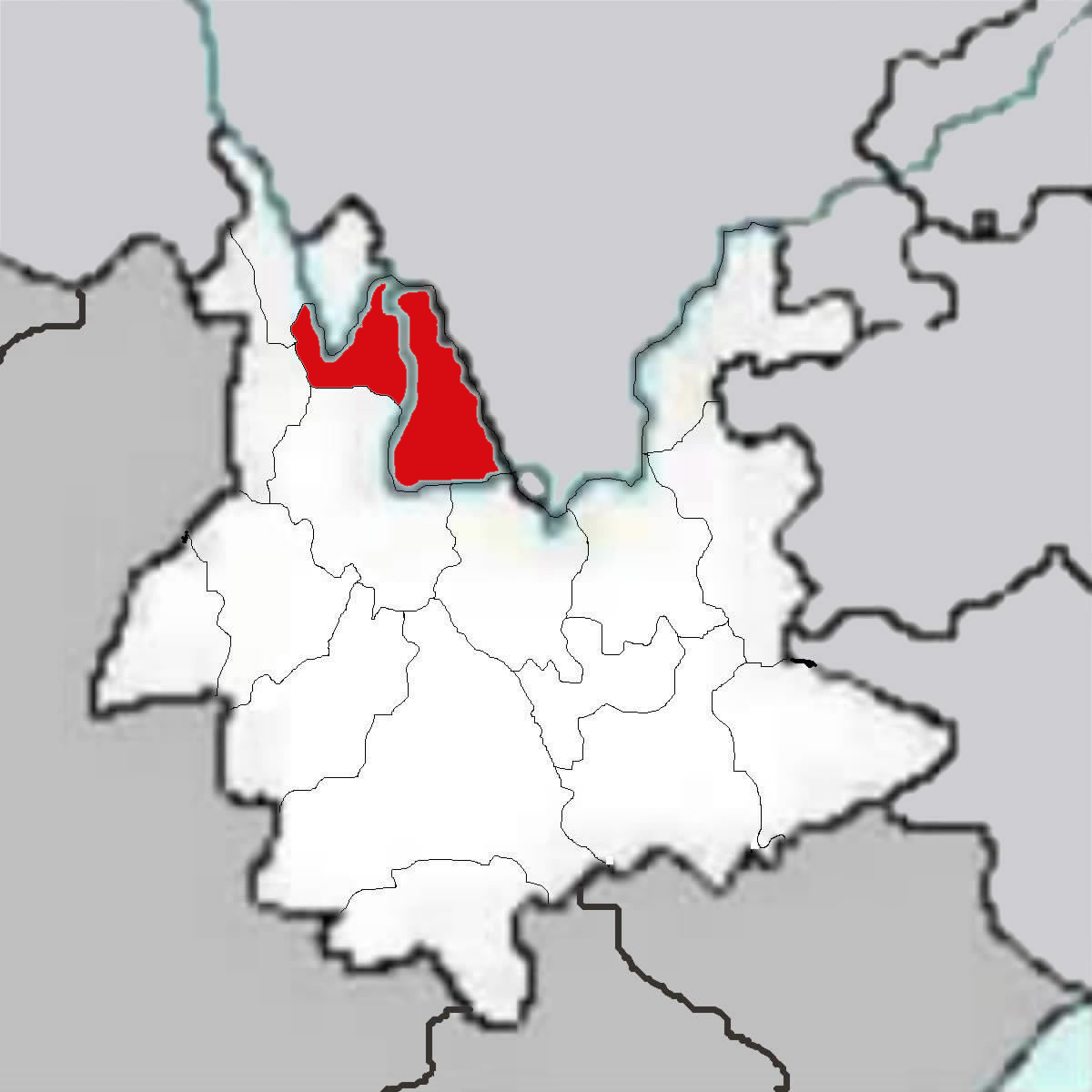 Location of Lijiang.